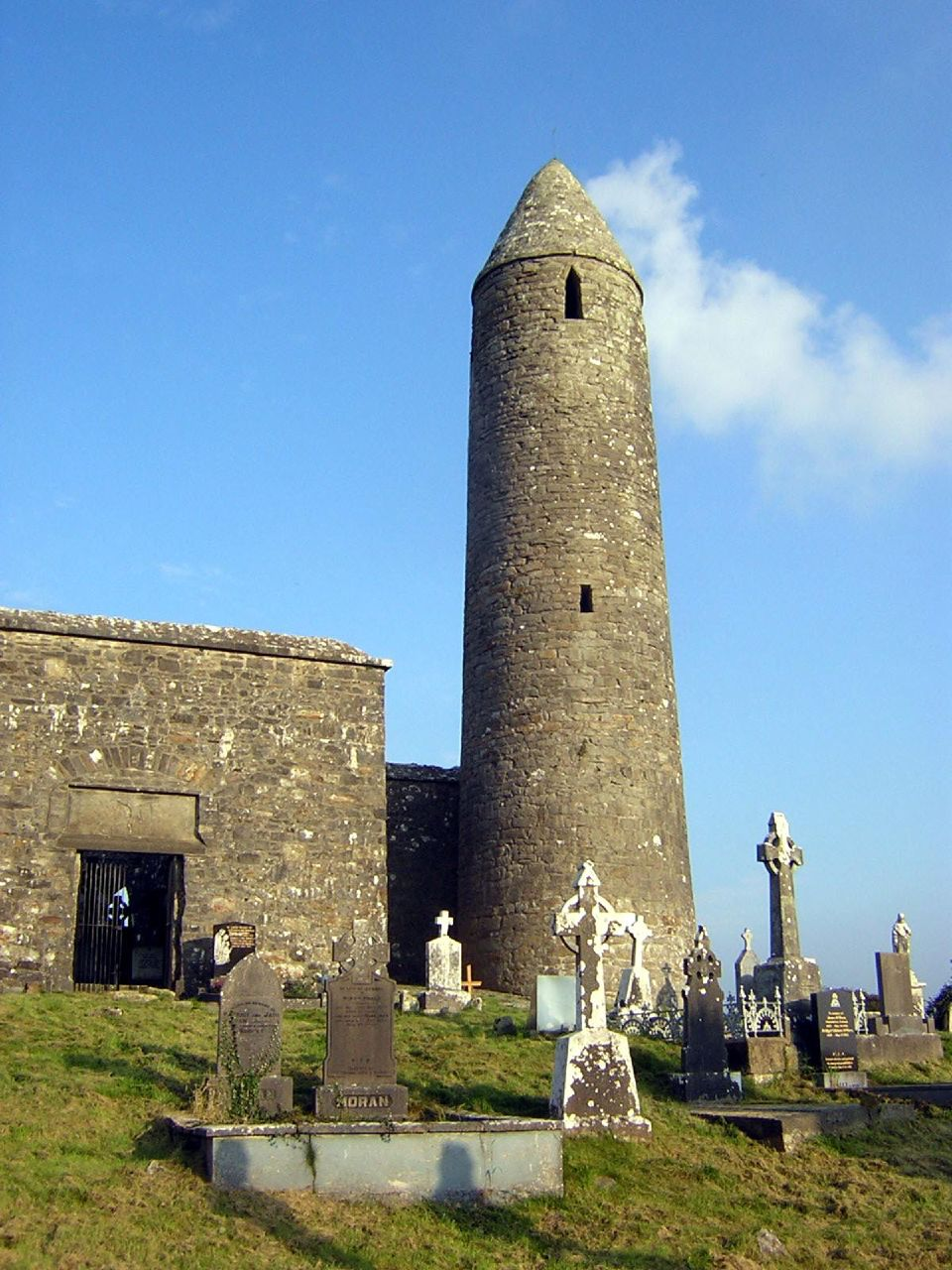 Churchyard and tower in Turlough (County Mayo)